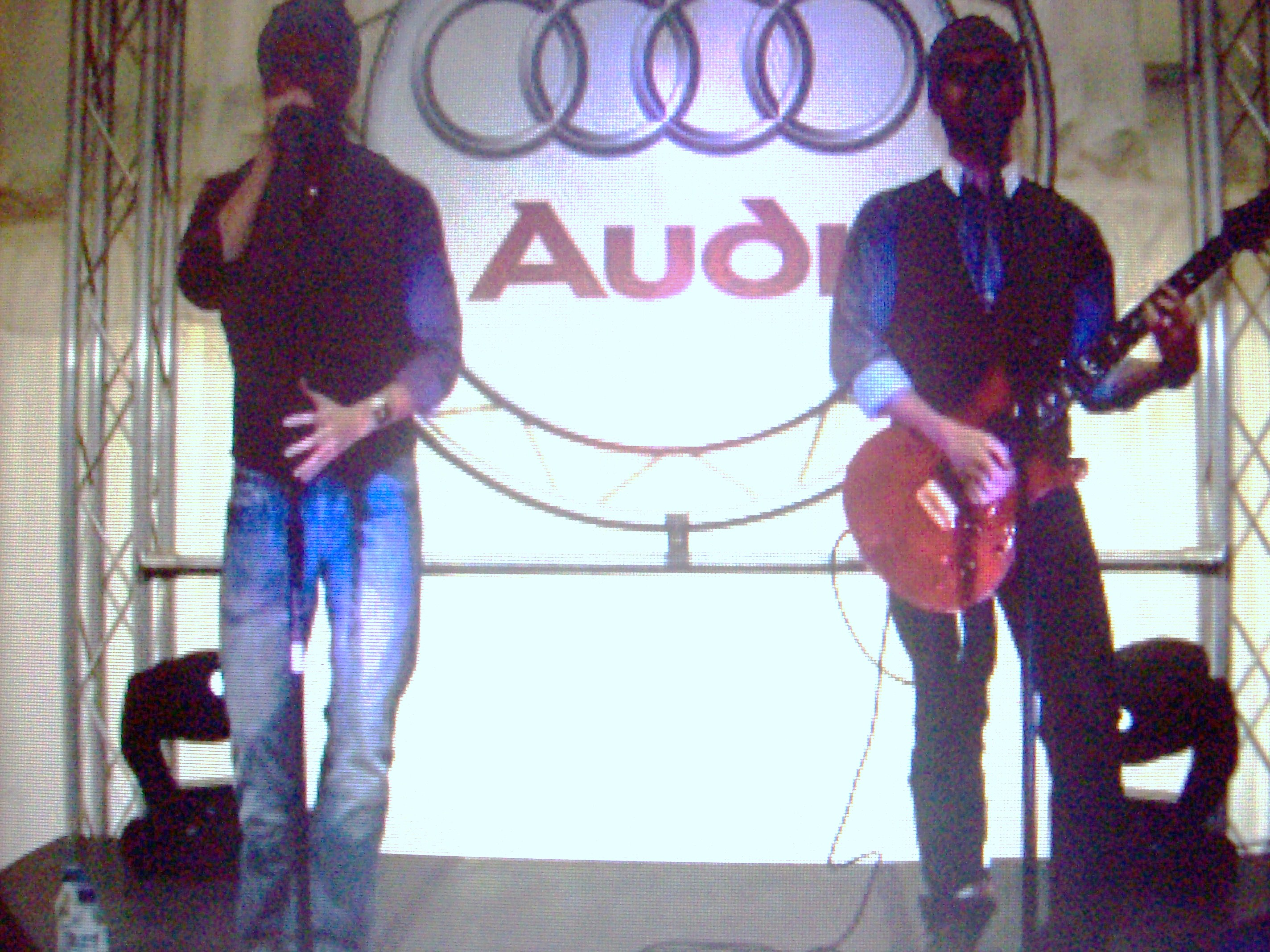 Higher brightness photo